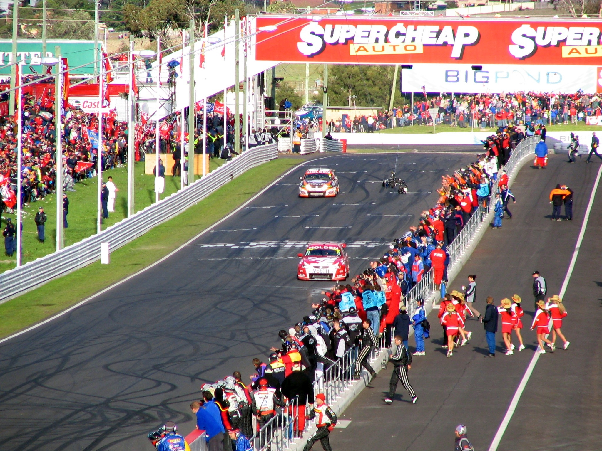 End of the 2005 Bathurst 1000 at the start/finish line of the Mount Panorama Circuit in Australia